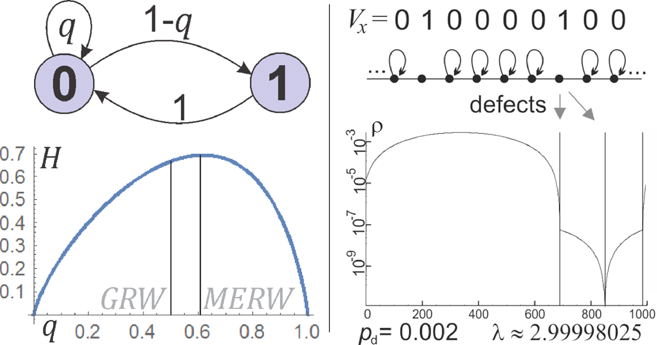 Examples of using MERW, Fibonacci coding(left) and 1D defected lattice (right).png